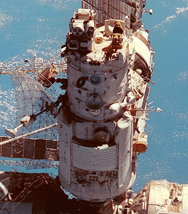 Space Station Mir - A view of the Priroda module of the Russian space station Mir from the departing Space Shuttle Discovery during STS-91. In view are the module's main compartments, scan platforms and Travers SAR antenna, in front of the obscured Base Block and Kvant-1 modules.